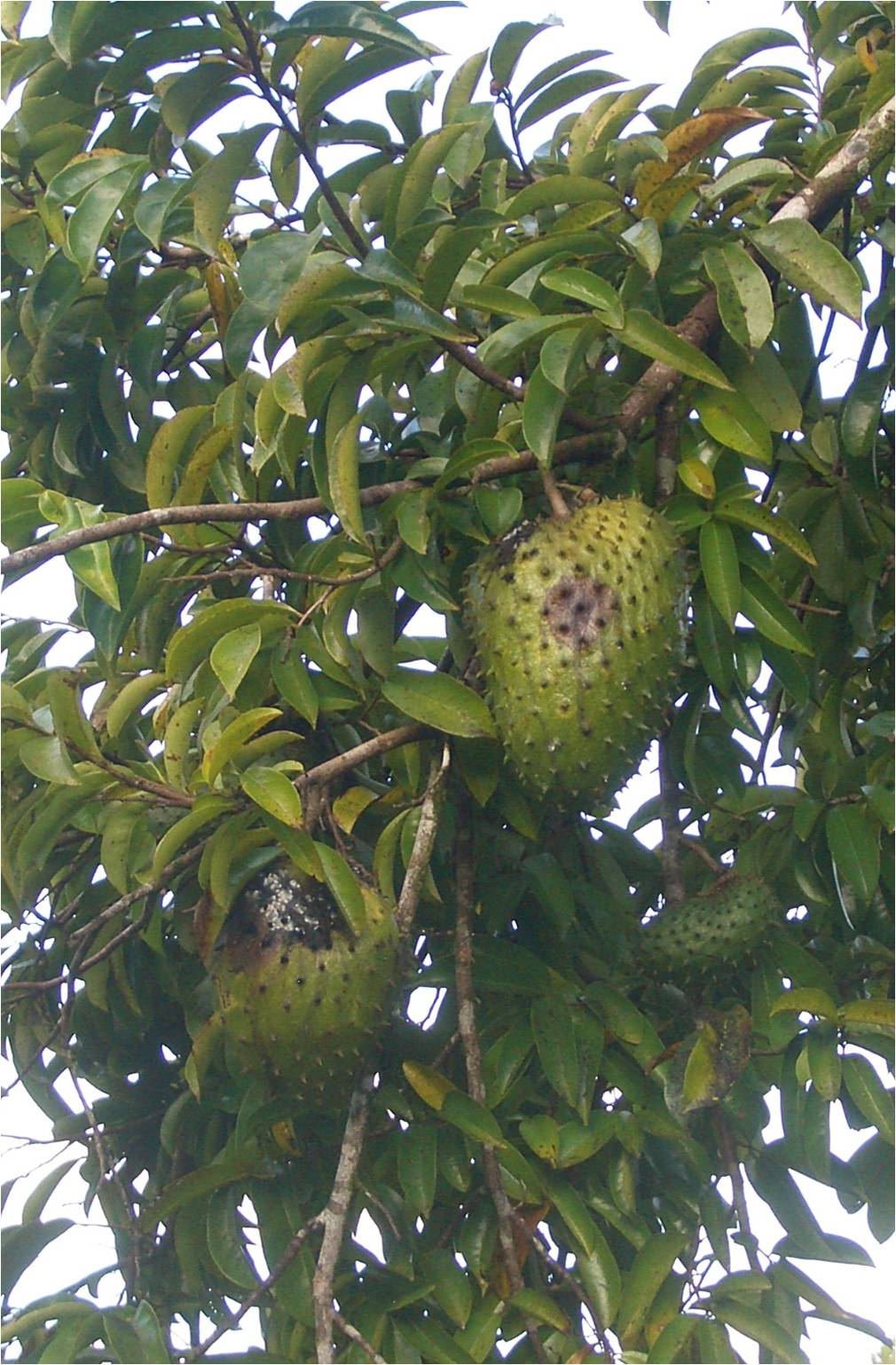 Soursop fruit on the tree, in an orchard near Japoonvale, northern Queensland.